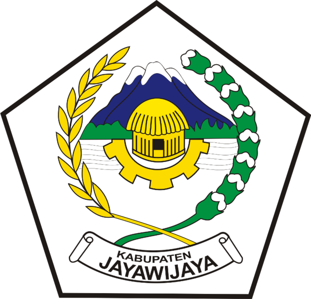 Obsolete symbol of Jayawijaya Regency